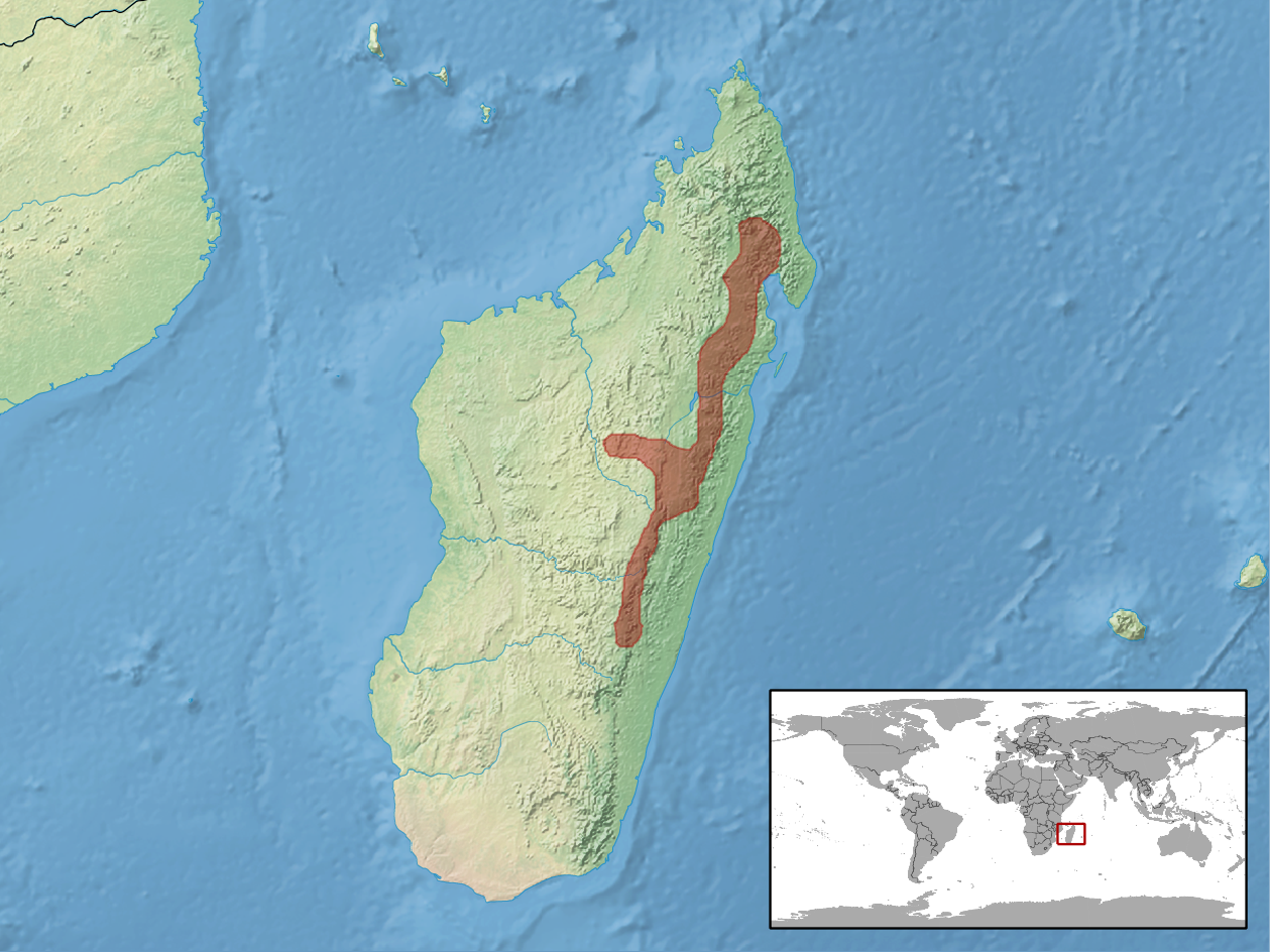 geographic distribution of Brookesia thieli (Native: Madagascar)